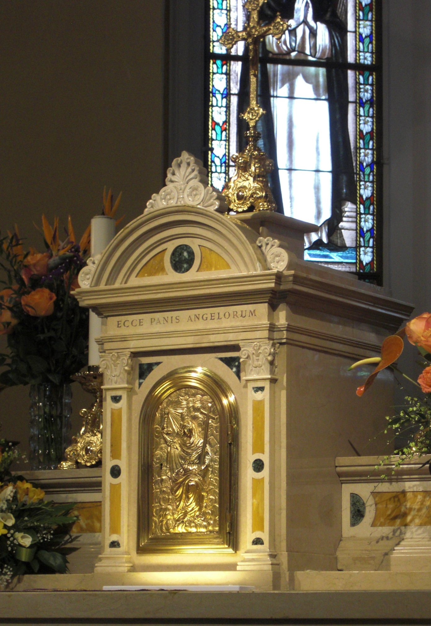 Tabernacolo of the shrine of Sala di Cesenatico (Italy)